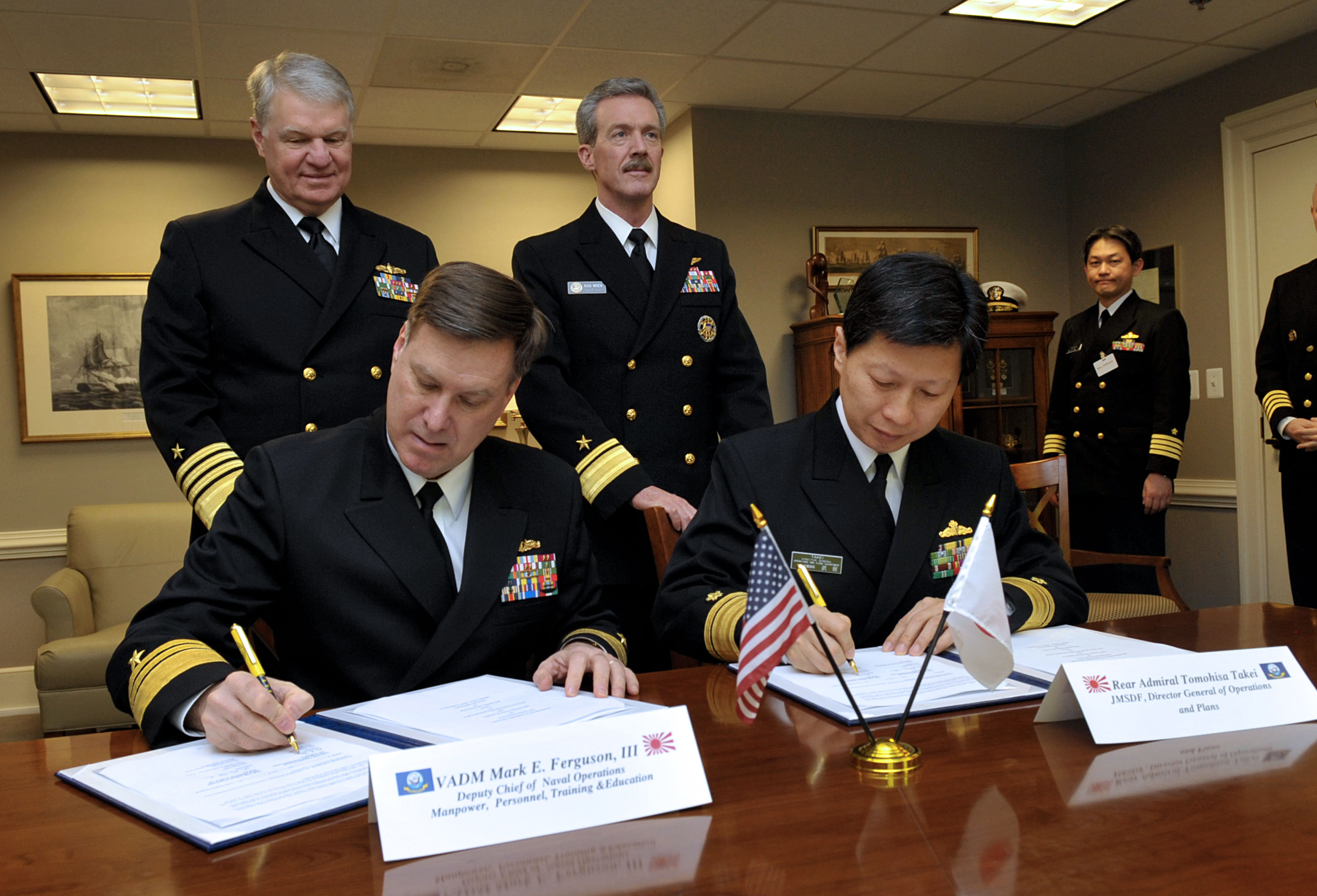 WASHINGTON (Feb. 23, 2010) Vice Adm. Mark Ferguson, Deputy Chief of Naval Operations for Manpower, Personnel, Training and Education, left, signs a Military Personnel Exchange Program memorandum of agreement between the U.S. Navy and the Japan Maritime Self-Defense Force with Rear Adm. Tamohisa Takei, Director General, Operations and Plans. Chief of Naval Operations (CNO) Adm. Gary Roughead near left and Rear Adm. Richard Wren, Commander, U.S. Naval Forces Japan look on during the signing at the Pentagon in Washington, D.C. (U.S. Navy photos by Mass Communication Specialist 1st Class Tiffini Jones Vanderwyst/Released)